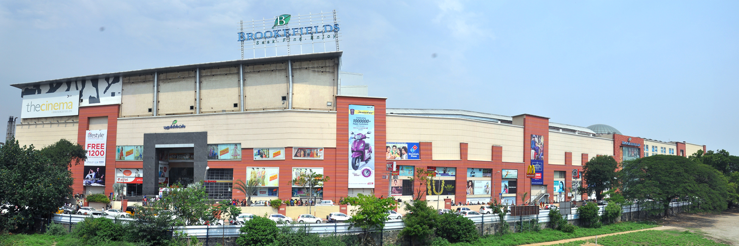 Nikon D90, Photo taken By durai.velumani @ north coimbatore, view from Coimbatore Lorry Owners Association Hall fist floor